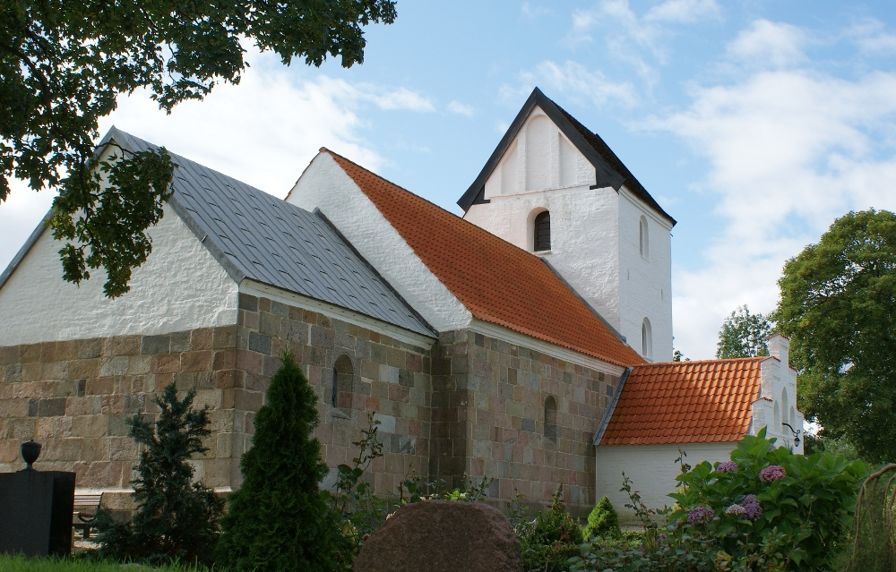 Frejlev church, Aalborg kommune, Nordjylland, Denmark